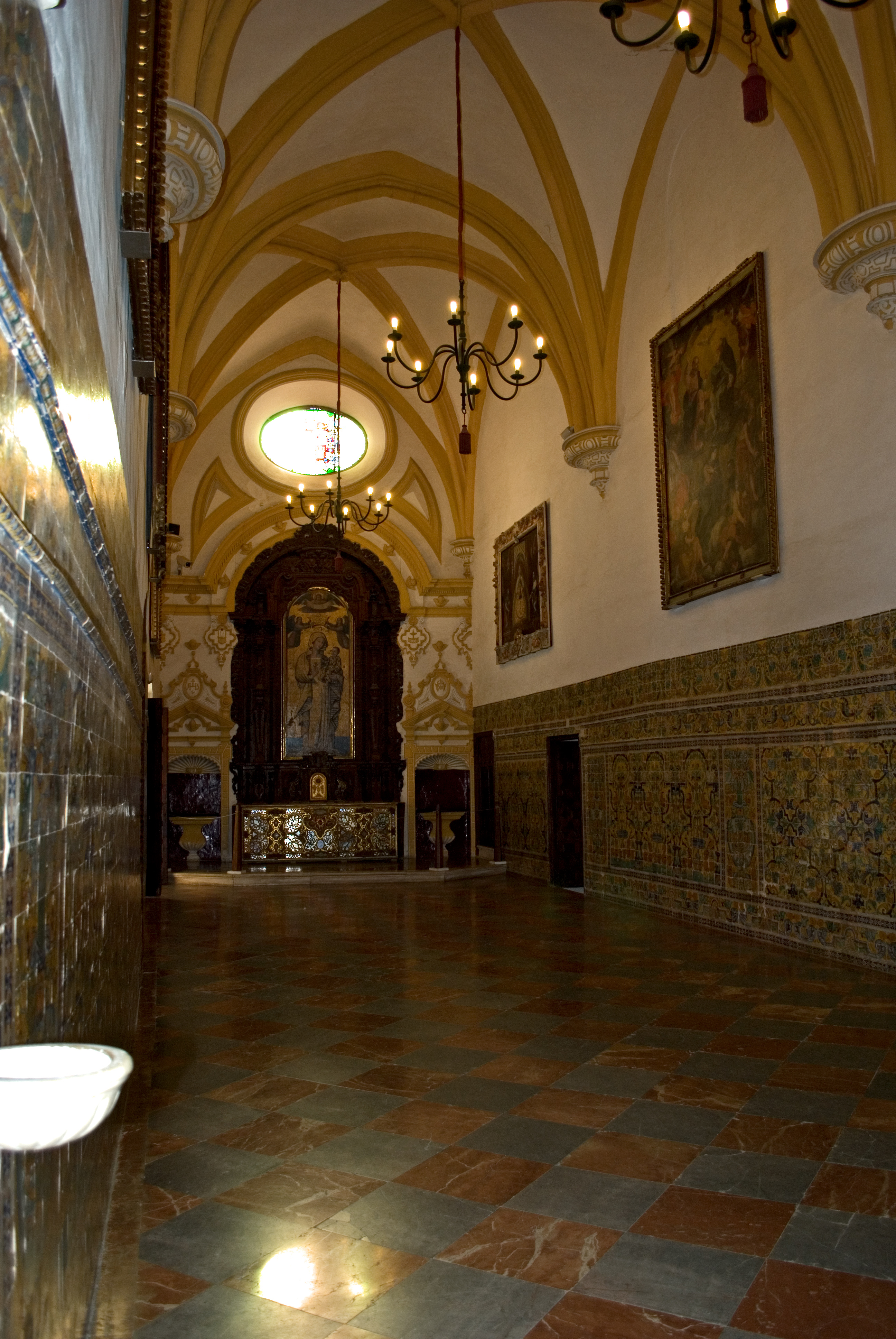 Alcázar of Seville